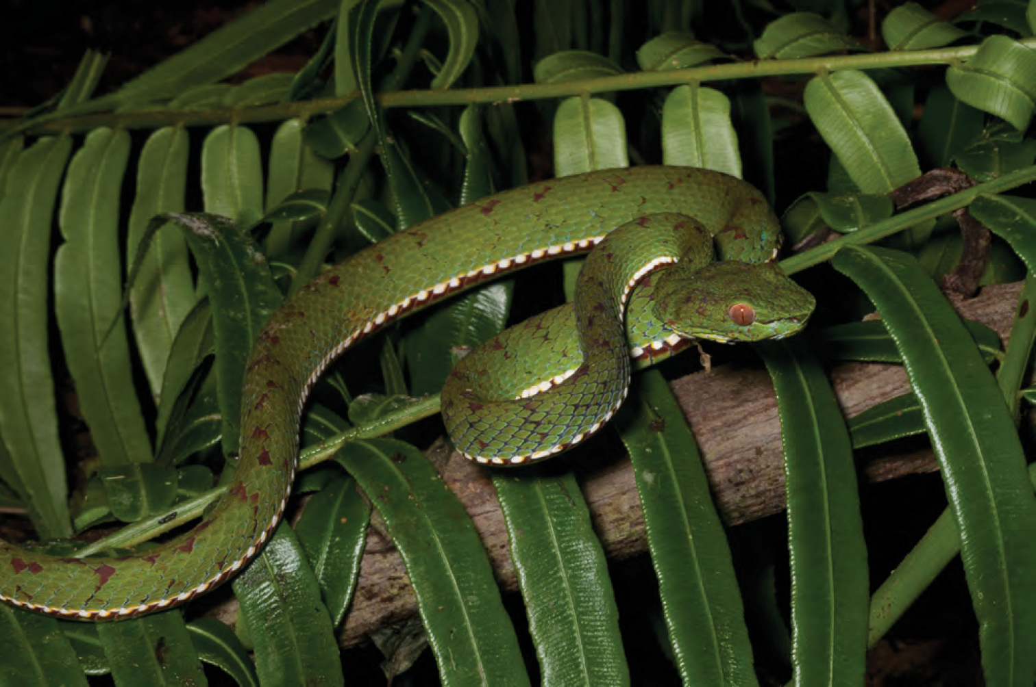 Trimeresurus flavomaculatus (KU 330049) from mid-elevation, Mt. Cagua. Photo: RMB.